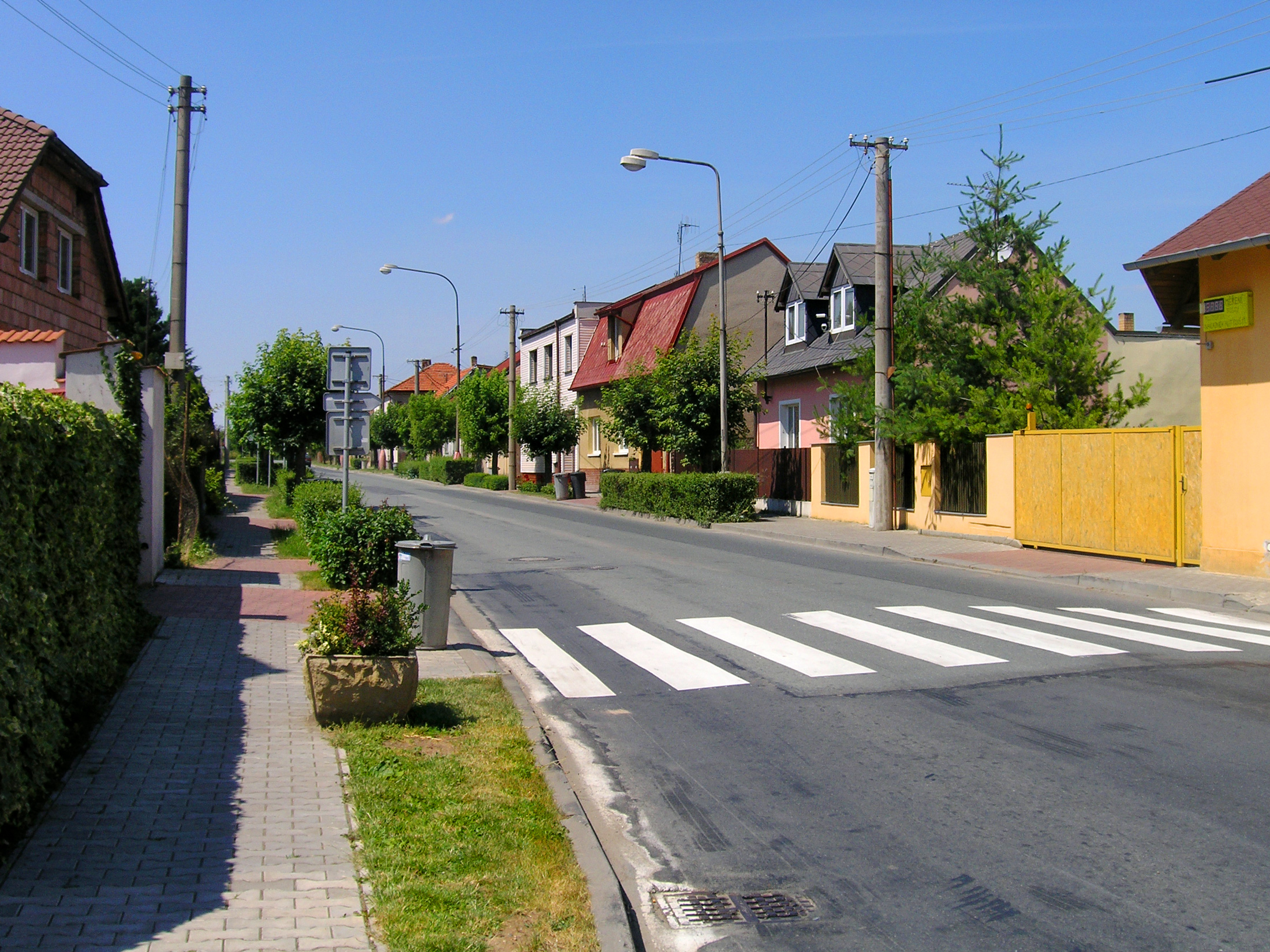 Street to Brandýs nad Labem in Zápy, Czech Republic